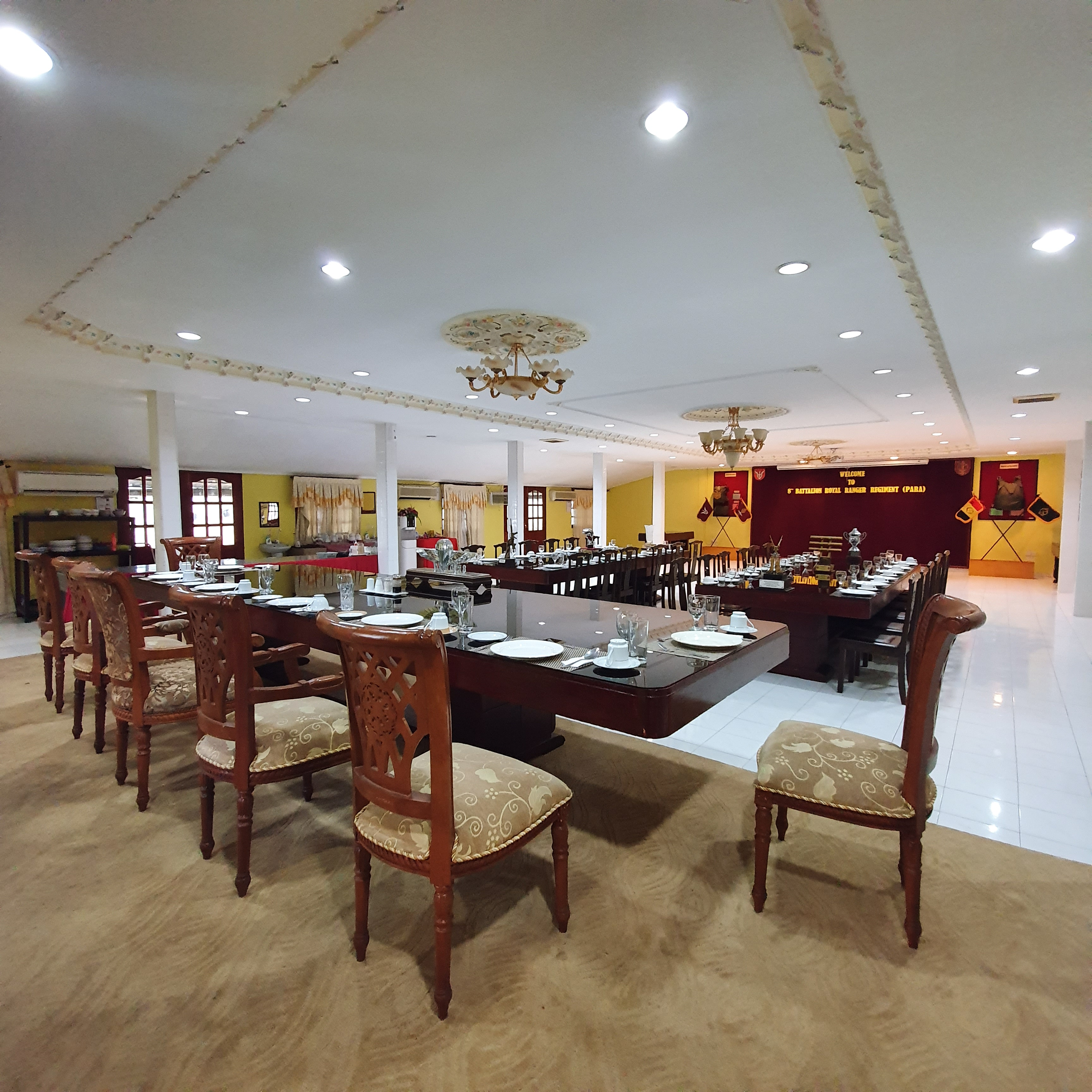 DEWAN MAKAN WP